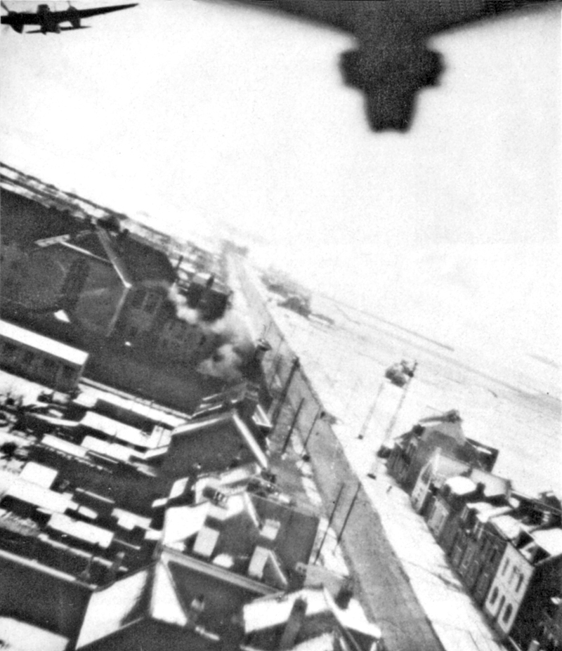 Operation Jericho - Amiens Prison during the raid - picture taken from the accompanying PRU Mosquito (the fuselage & tailwheel of which appears in the top-right of the picture) and also showing one of the attacking Mosquitoes (with bomb-doors open) at the extreme top-left of the picture. The Prison itself is the large, dark building, at the centre-left. IMW description (object 205023419) reads "Operation JERICHO: the daylight raid by 18 De Havilland Mosquito FB Mark VIs of No. 140 Airfield, No. 2 Group, led by Group Captain P C Pickard, to free resistance members awaiting execution in Amiens Jail, France. Here, Mosquitos of No. 487 Squadron RNZAF clear the target at low level as the first 500-lb bombs to be dropped detonate near the south wall of the prison"